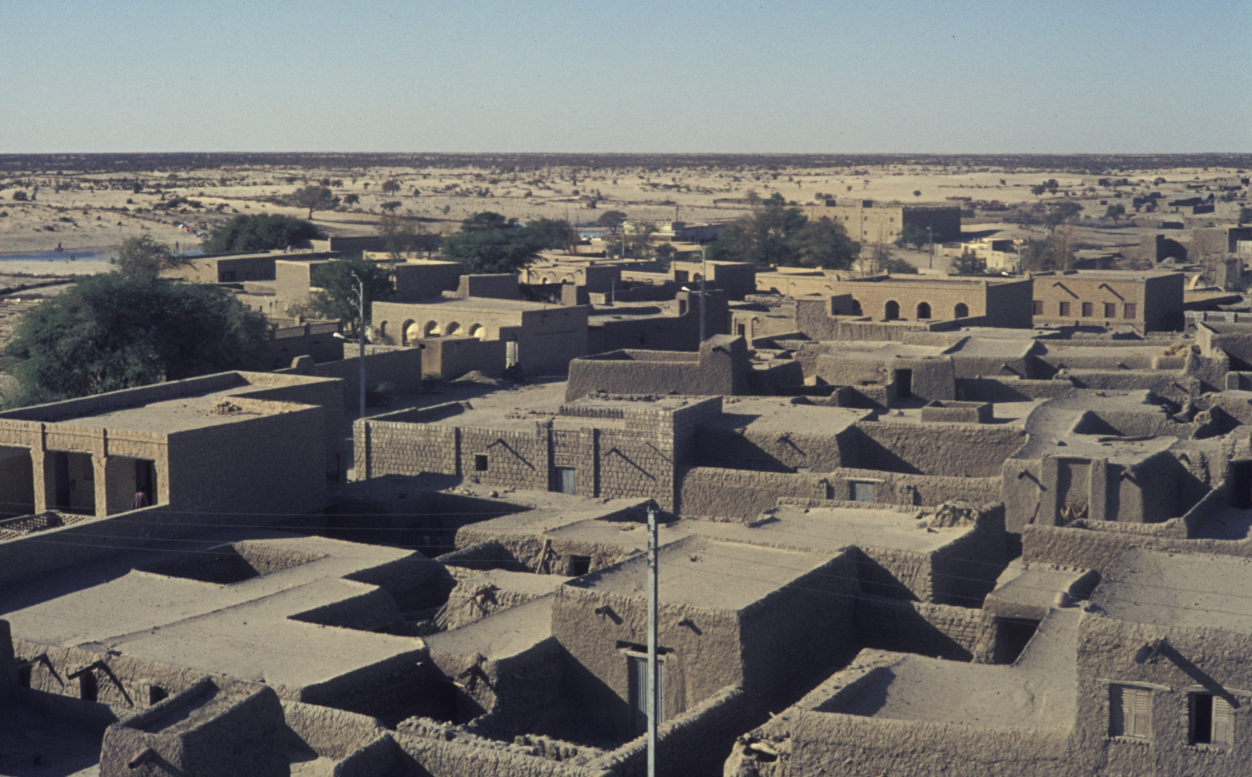 Mud buildings in Timbuktu — Mali.